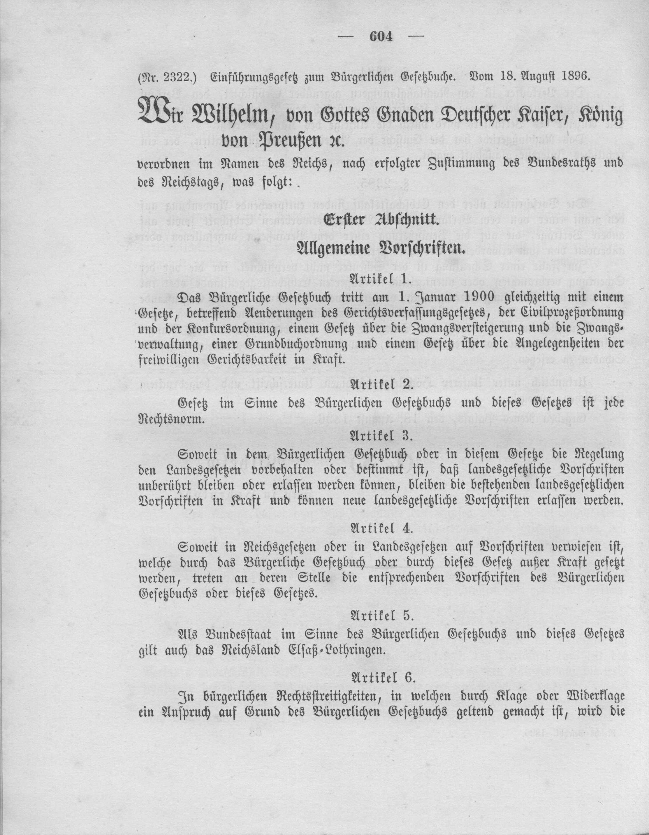 Scan from the Imperial Law Gazette of Germany, 1896